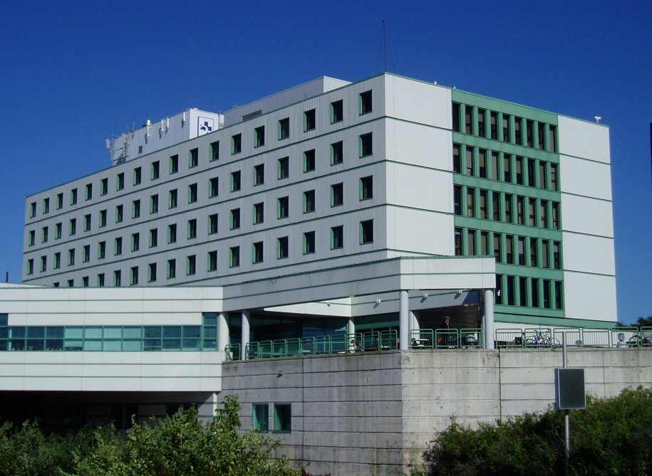 Ottawa's Riverside Hospital.